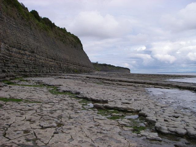 Strata formation - cliffs near Penarth, Wales- more accurately, west of Lavernock Point- cf. Geograph title